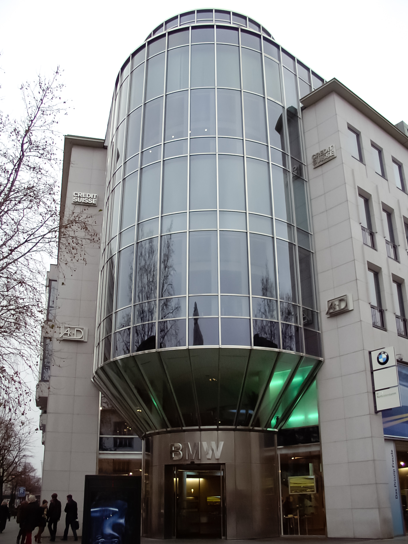 BMW dealer at the Kurfürstendamm in Berlin